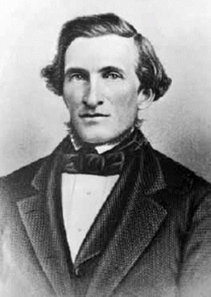 Photo of Jedediah M. Grant.